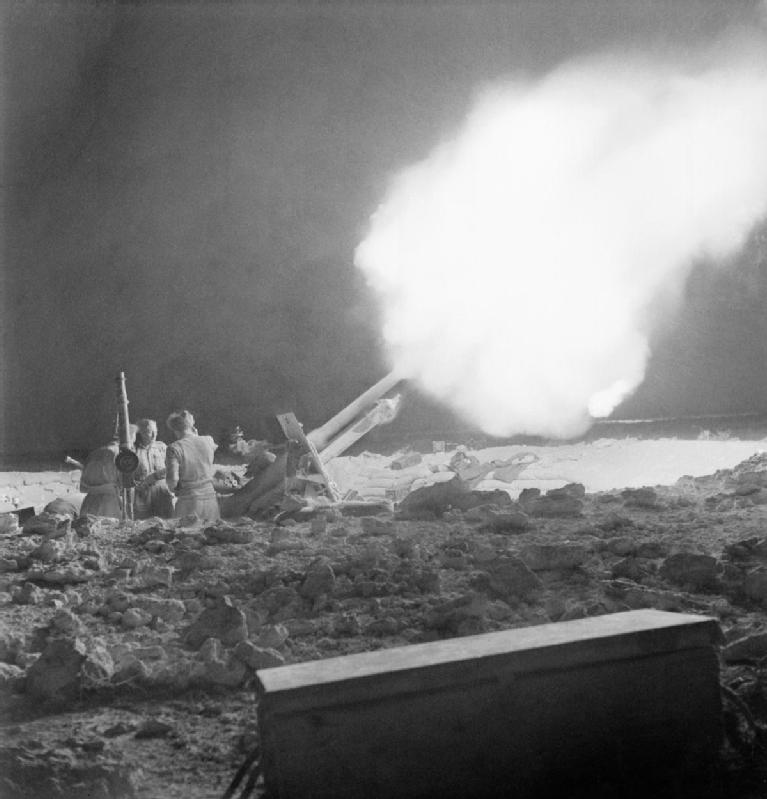 British 25-pounder field guns in action on the night of 2 June 1942 during the Battle of Gazala in Libya. British 25 pounder guns fire at Erwin Rommel's Afrika Korps on the night of 2 June 1942 during the battle of Gazala, Libya.